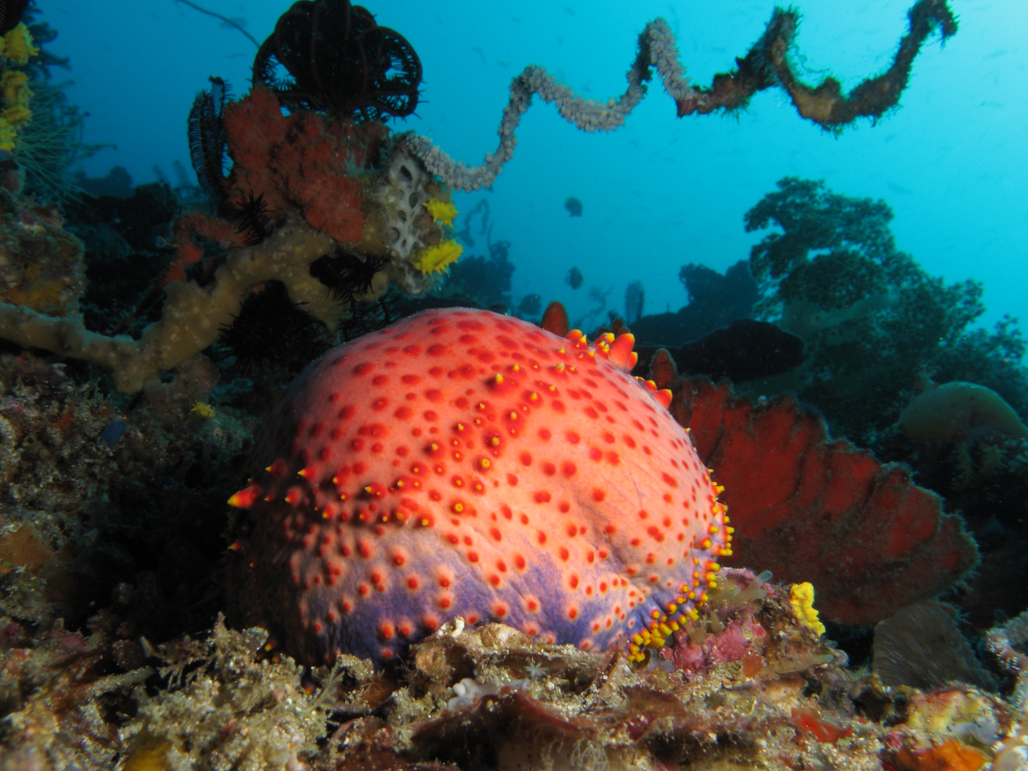 Sea apple at Nusa Code (near Komodo, Indonesia)